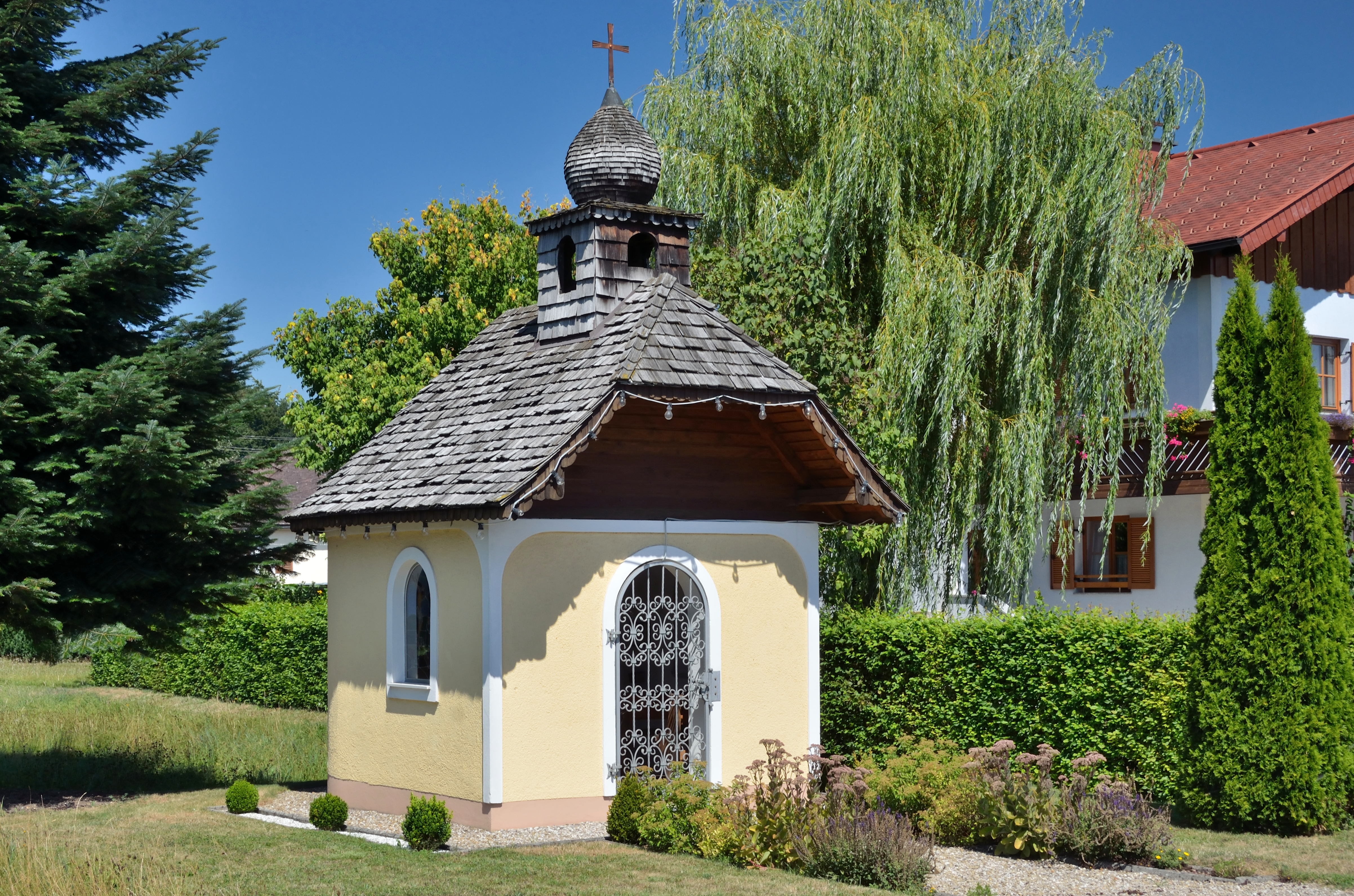 A chapel in Tuffeltsham, municipality of Redlham, Upper Austria.